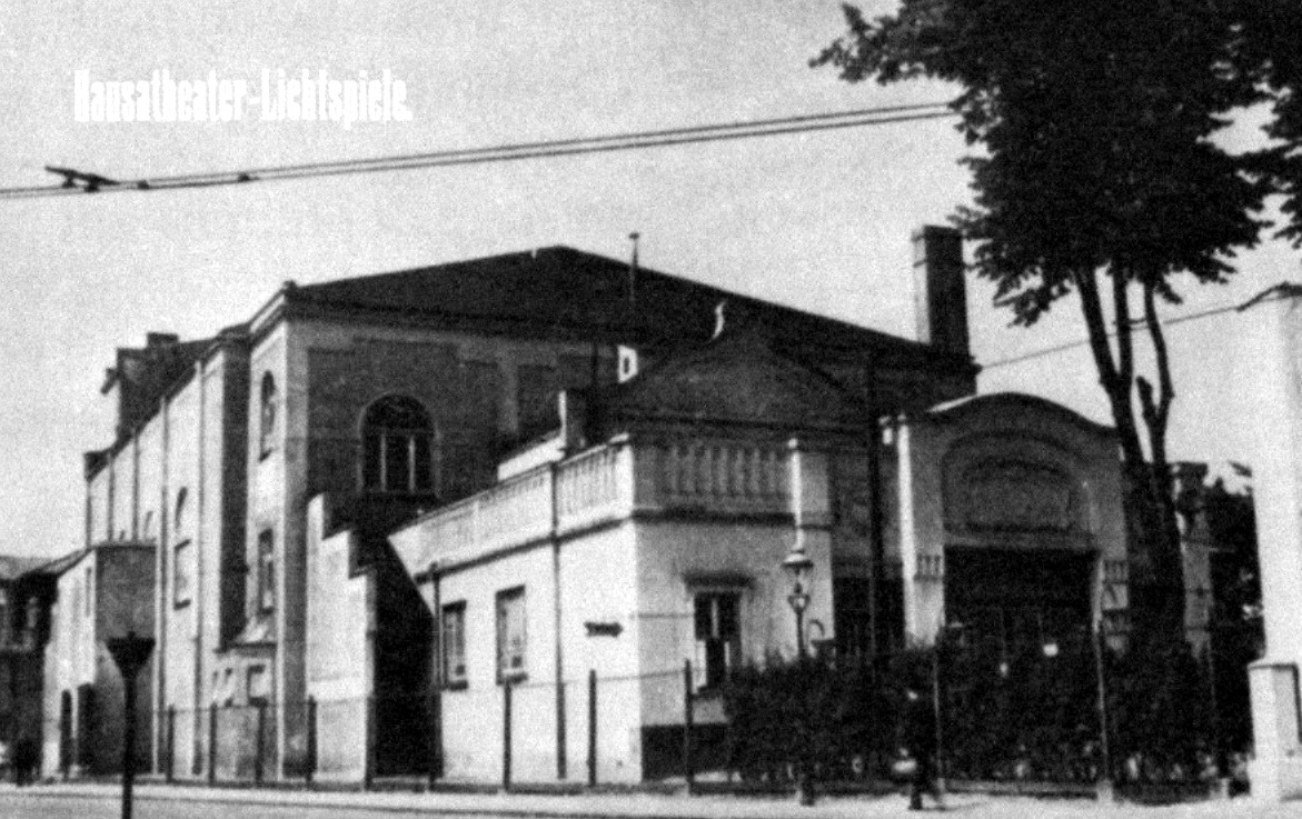 The former theatre and cinema "Hansatheater" (afterwards "Delta-Palast" and "Holstentor-Lichtspiele") in Lübeck. Built in 1906, demolished in 1980.